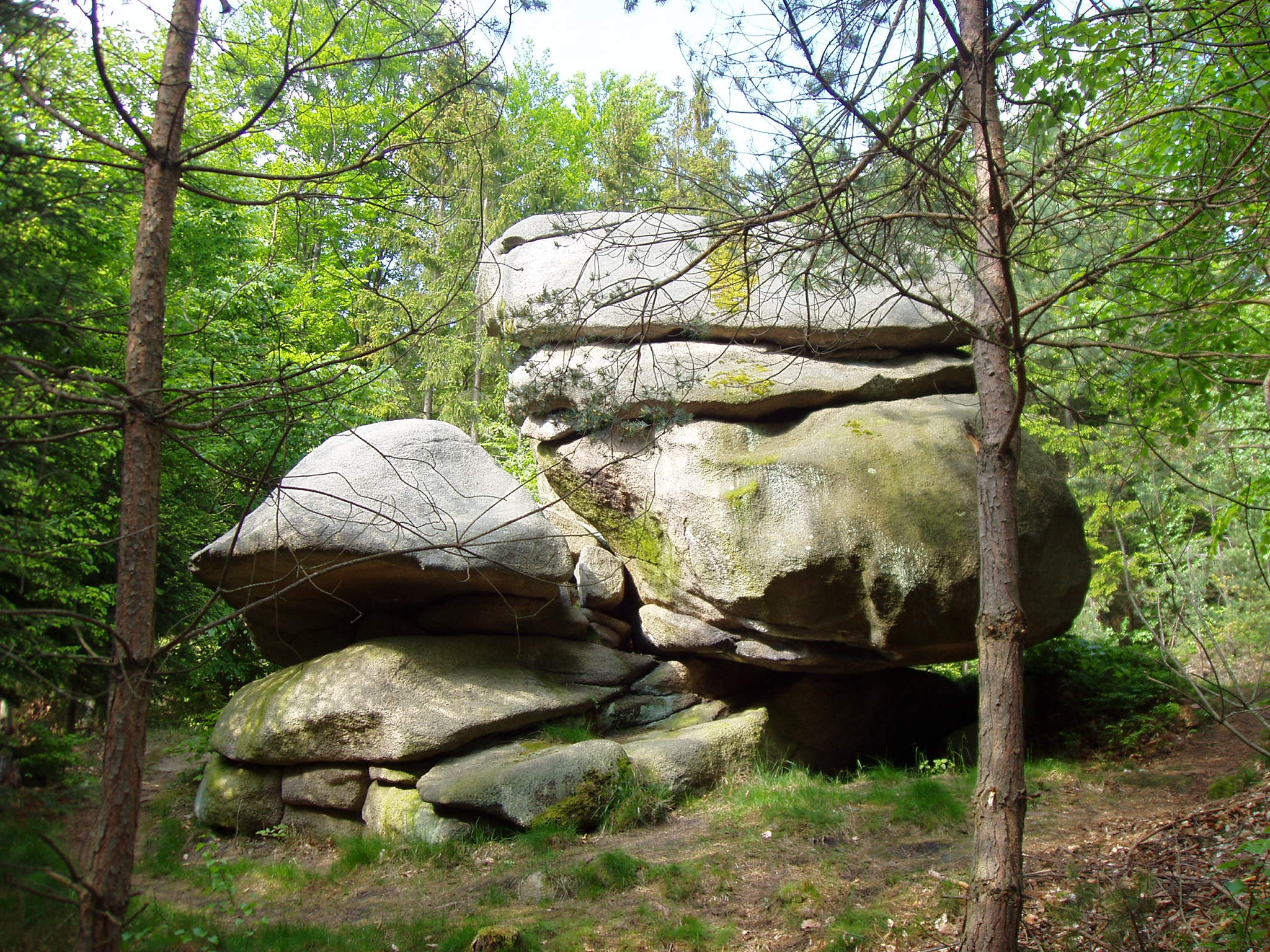 Certuv kamen (Devil's stone), natural monument, district Havlickuv Brod, Czech Republic